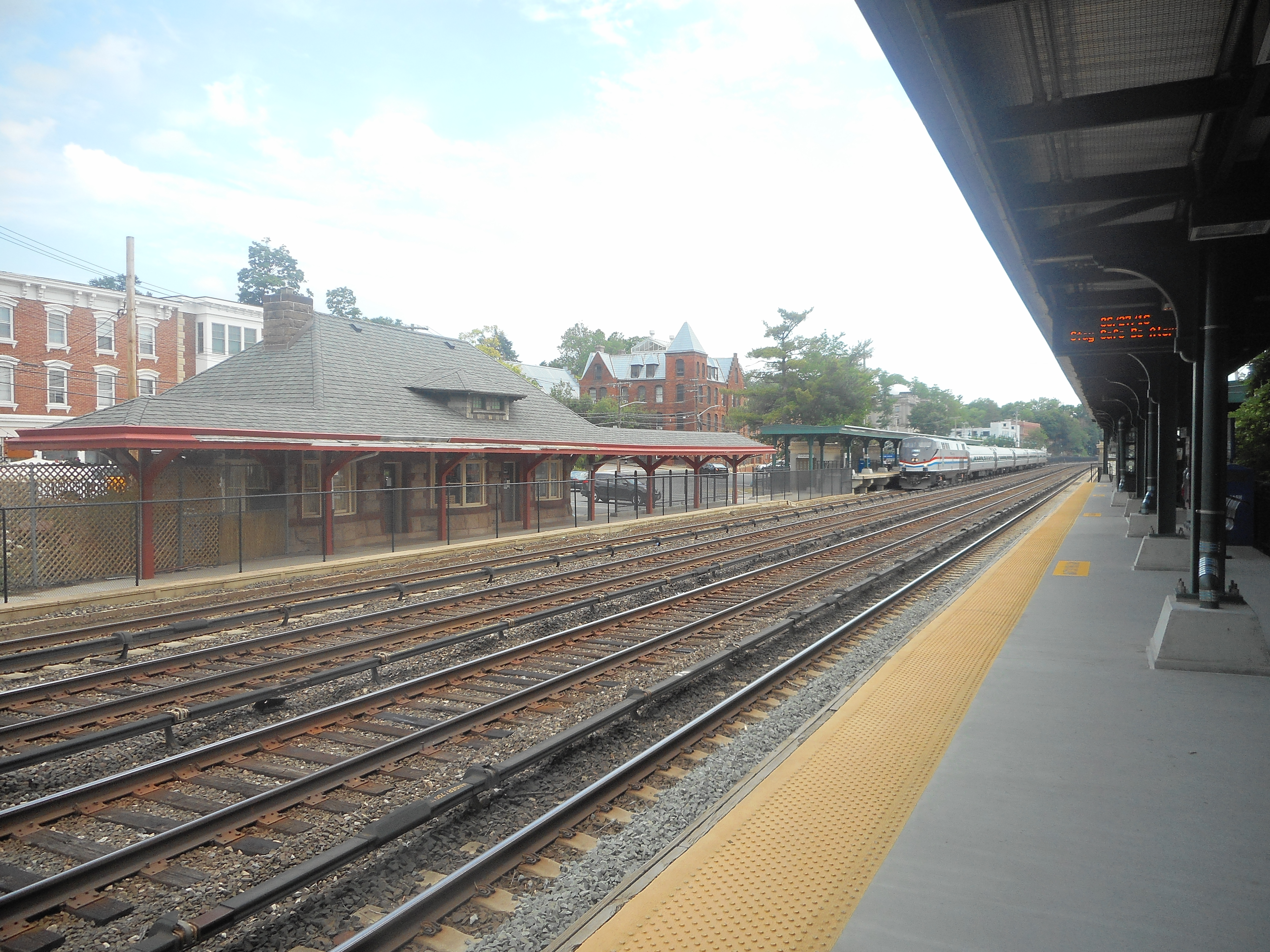 Amtrak heritage unit #822 leads northbound Empire Service train #235 through Irvington station on the Metro-North Hudson Line in Irvington, New York in June 2016